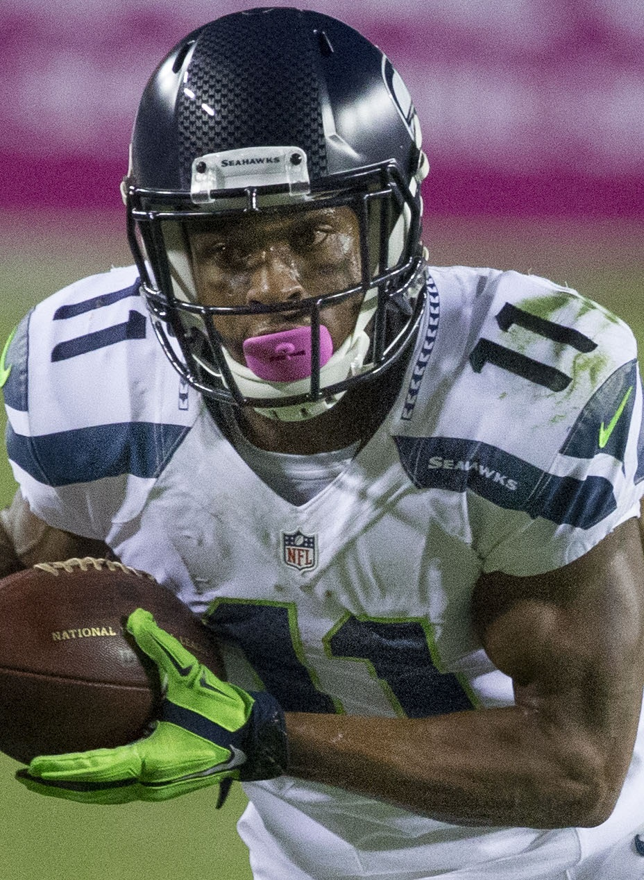 Seahawks at Redskins 10/6/14